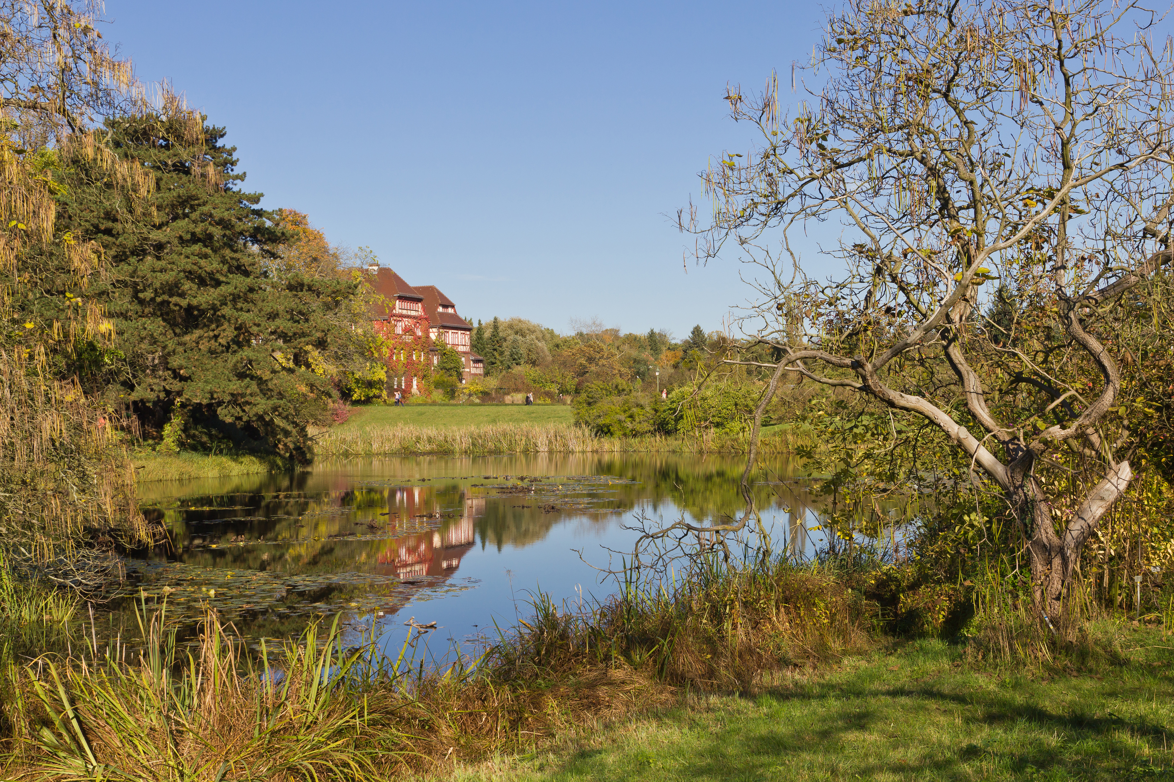 Berlin-Dahlem Botanical Garden in autumn 2014 / one of the ponds